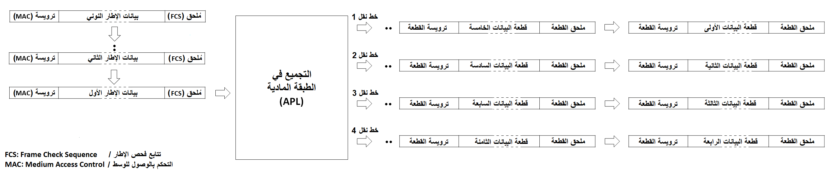 Fragmentation of data frames in the physical layer according to the Ethernet protocol.